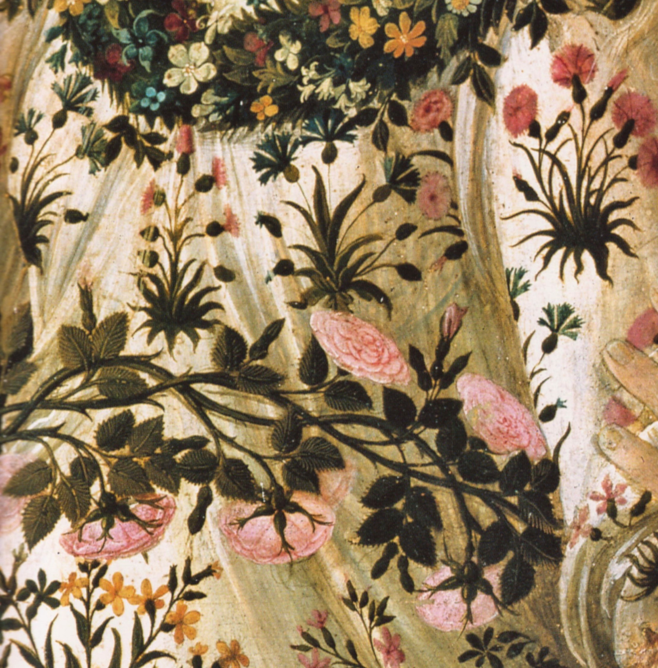 Primavera by Sandro Botticelli, "Der schöne Schein" exhibition of replicas of well-known artwork in the Gasometer in Oberhausen